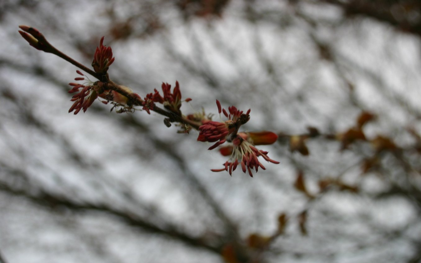 Cercidiphyllum japonicum: Male flower